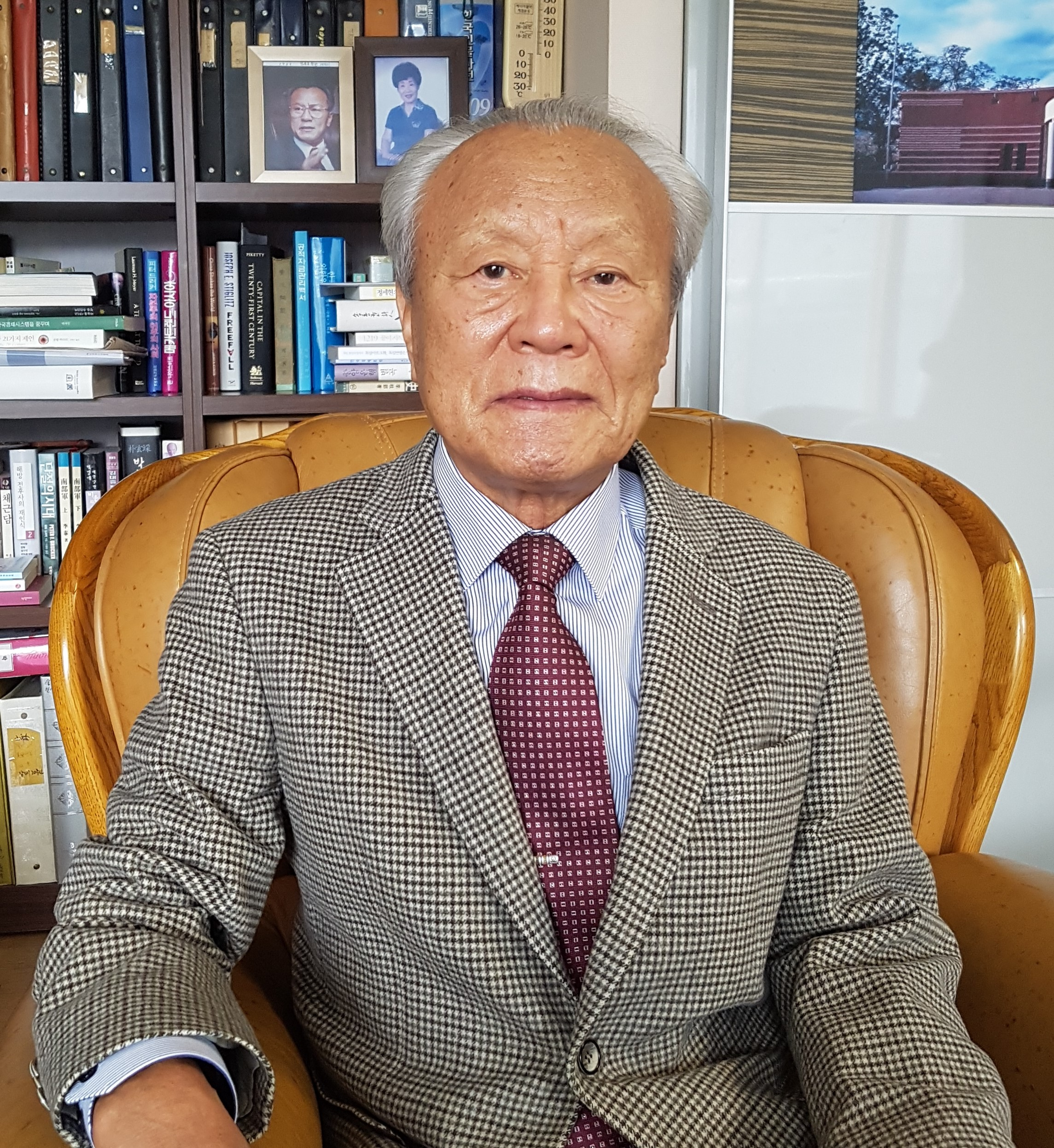 Picture of Mr. Seung Park in his residence